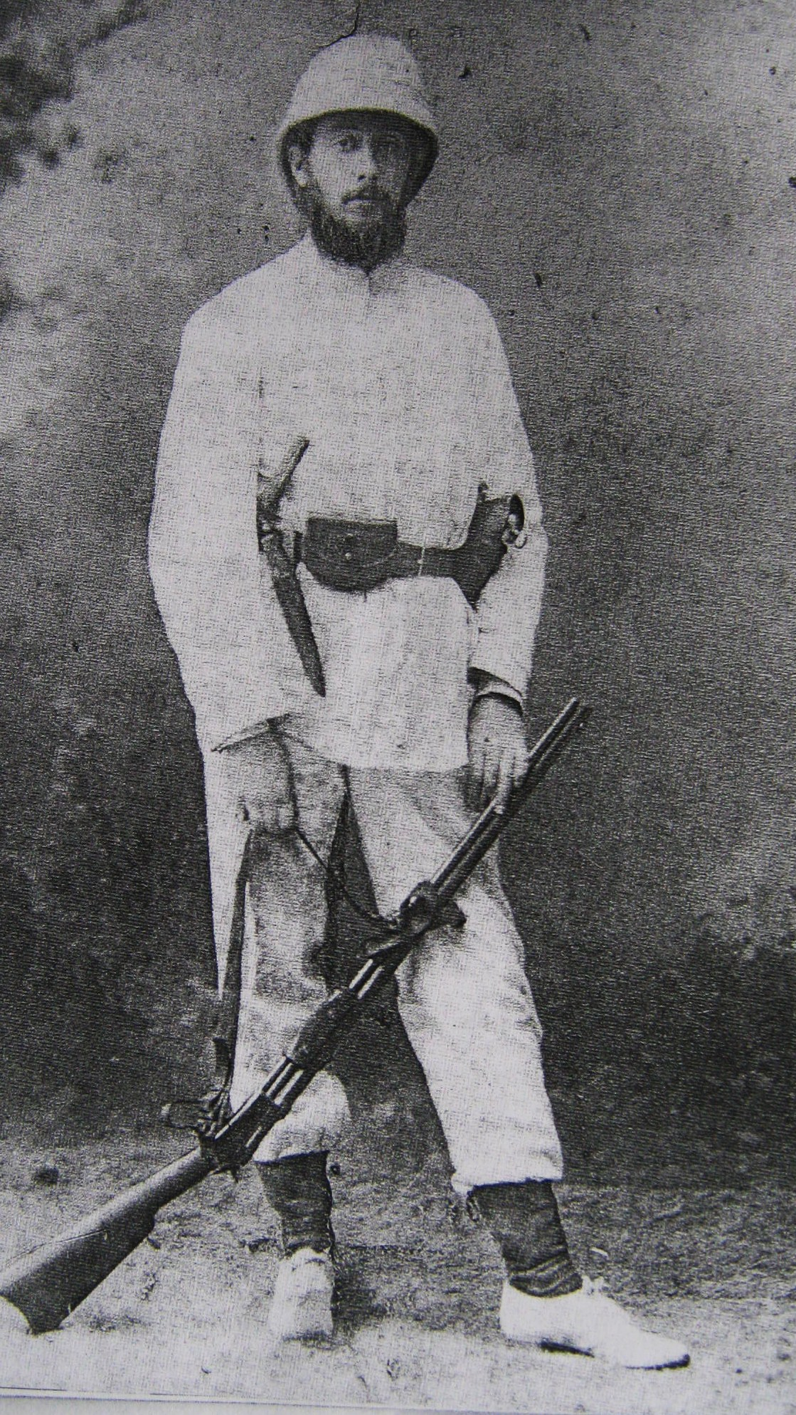 The explorer , elio Modigliani in Nias, circa 1886